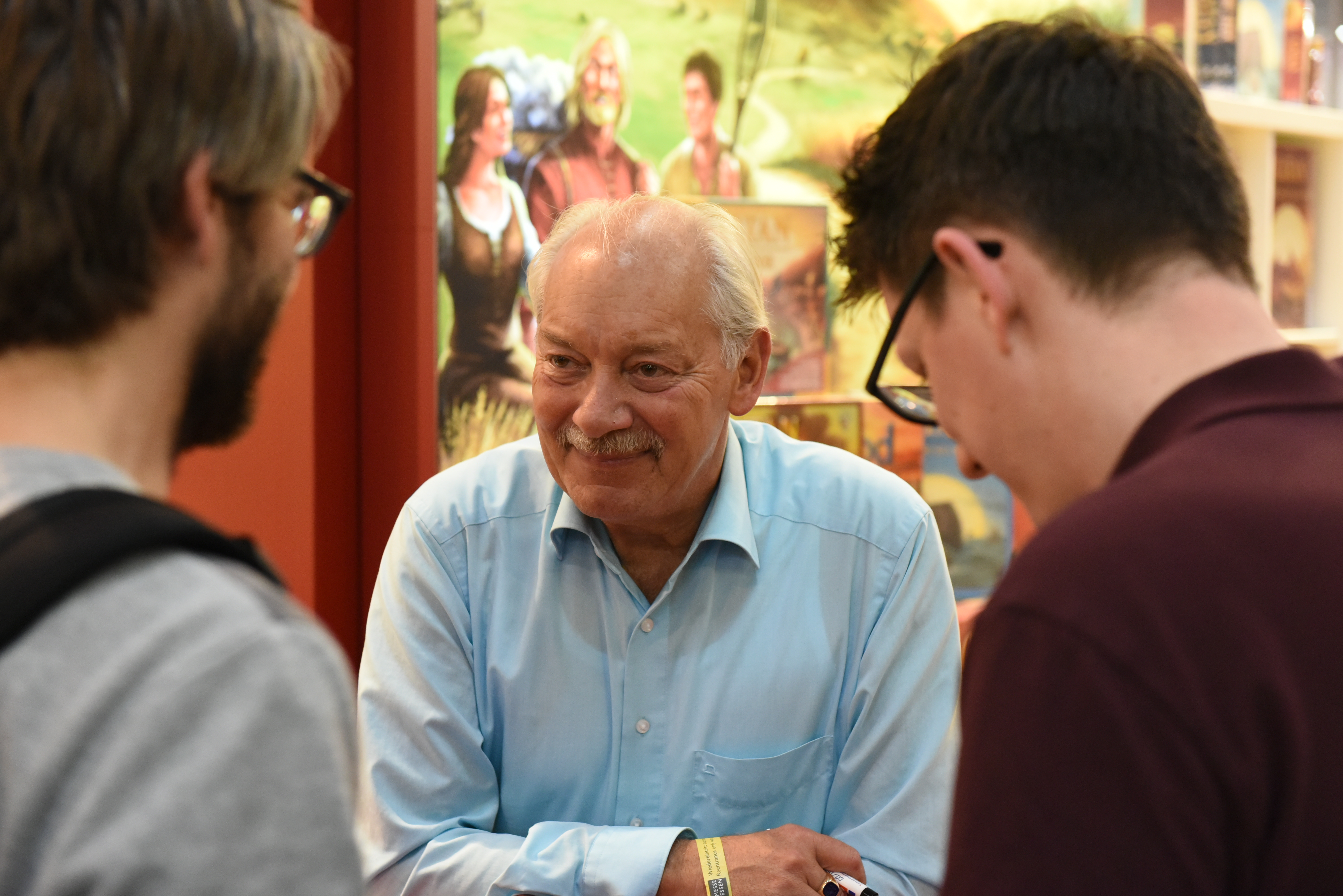 The game author Klaus Teuber at the board game fair Spiel '17 in Essen, Germany.